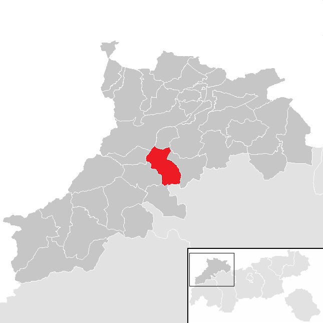 District Reutte